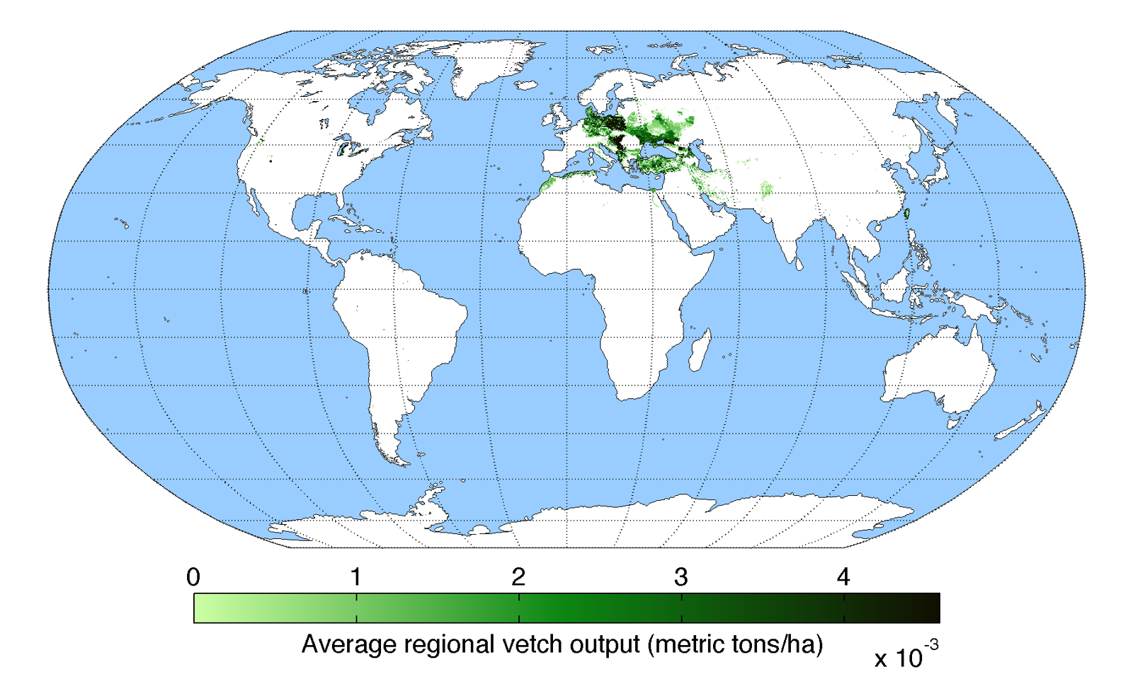 Map of sour cherry output across the world compiled by the University of Minnesota Institute on the Environment with data from: Monfreda, C., N. Ramankutty, and J.A. Foley. 2008. Farming the planet: 2. Geographic distribution of crop areas, yields, physiological types, and net primary production in the year 2000. Global Biogeochemical Cycles 22: GB1022